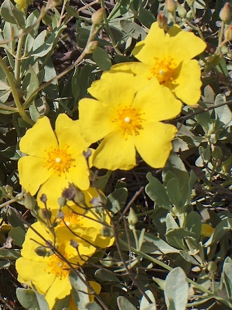 Flowers of Helianthemum croceum